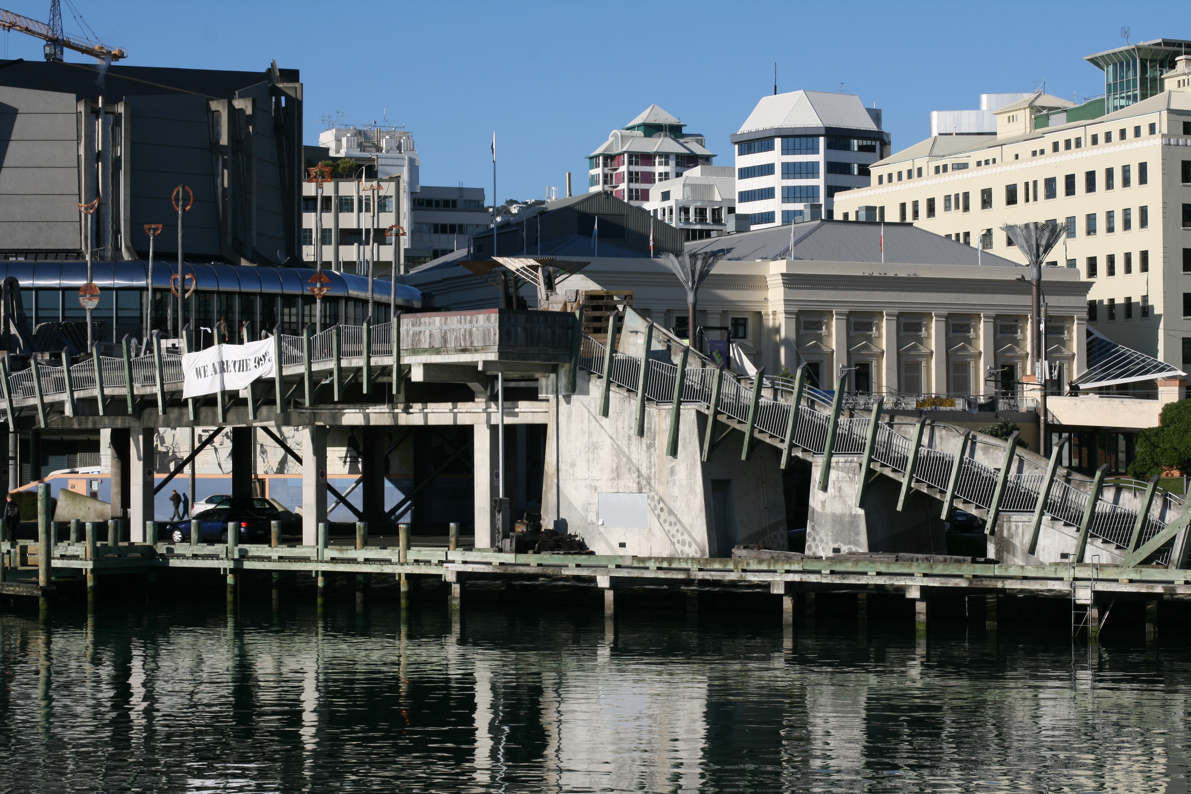 City to Sea Bridge viewed from across the water with Michael Fowler Centre and Wellington Town Hall in background.